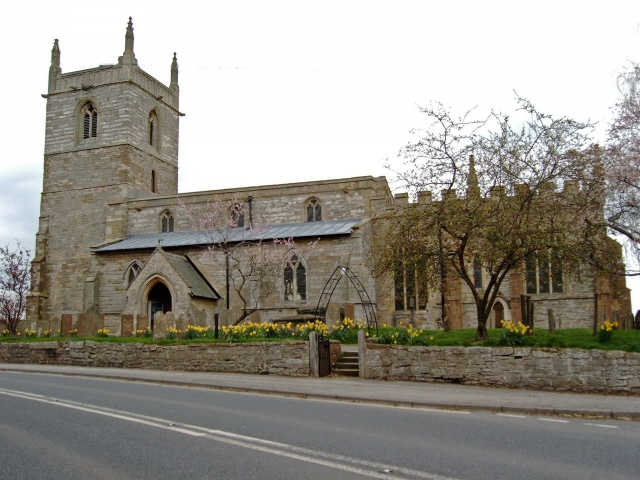 Church of St. Bartholomew, Kneesall. This 13th century church stands in the centre of Kneesall on the A616 as it passes through the village on a sharp bend. It has recently undergone extensive re-roofing work.